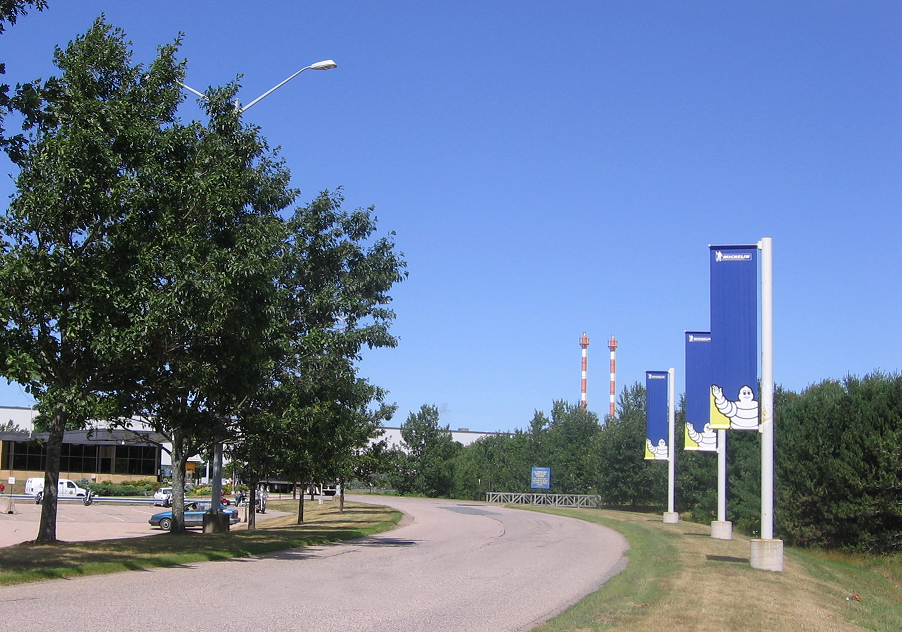 Entrance to Michelin plant in Waterville, Nova Scotia. Self made photo to illustrate Michelin article.